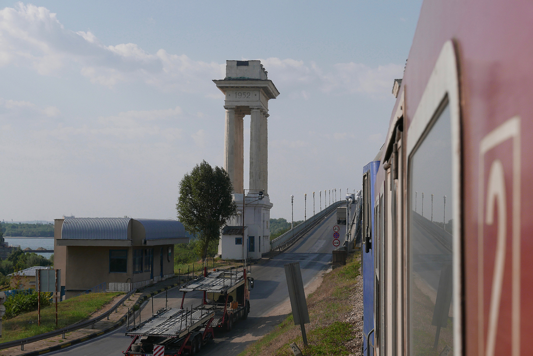 Bulgarian side of the Danube bridge between Ruse and Giurgiu.